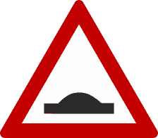 Diagram of road signs of Luxembourg